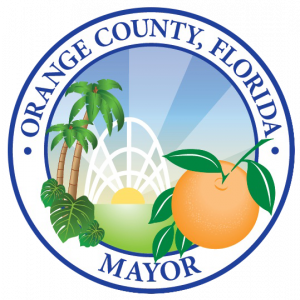 Logo of the Mayor of Orange County, Florida